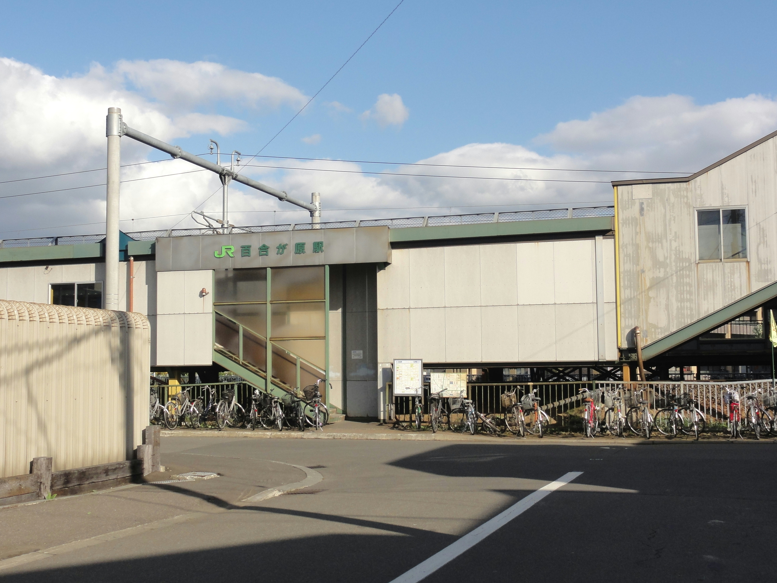 West entrance of Yurigahara Station on the Sasshō Line (Kita-ku, Sapporo, Hokkaido)